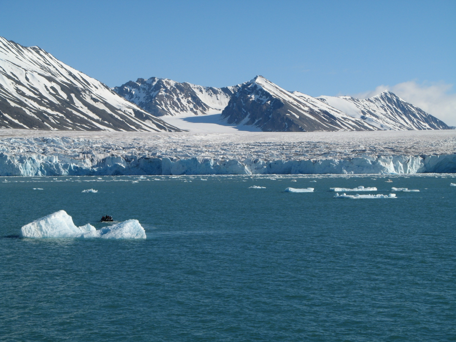 The 6km wide ice front of the Monacobreen glacier, northern Spitsbergen.